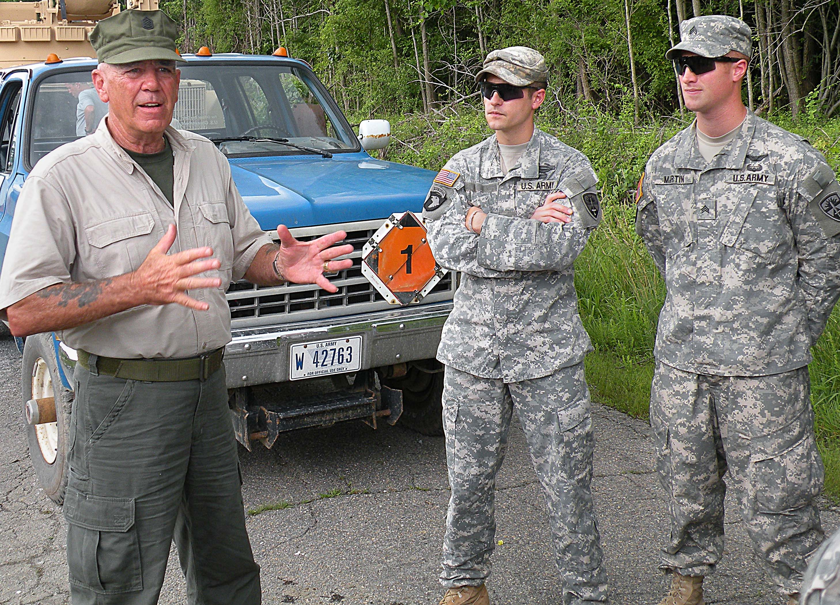 Retired Gunnery Sgt. R. Lee Ermey of "Full Metal Jacket" fame gives some pointers to members of the production crew while filming for the upcoming "Lock-n-Load" series on the History Channel.